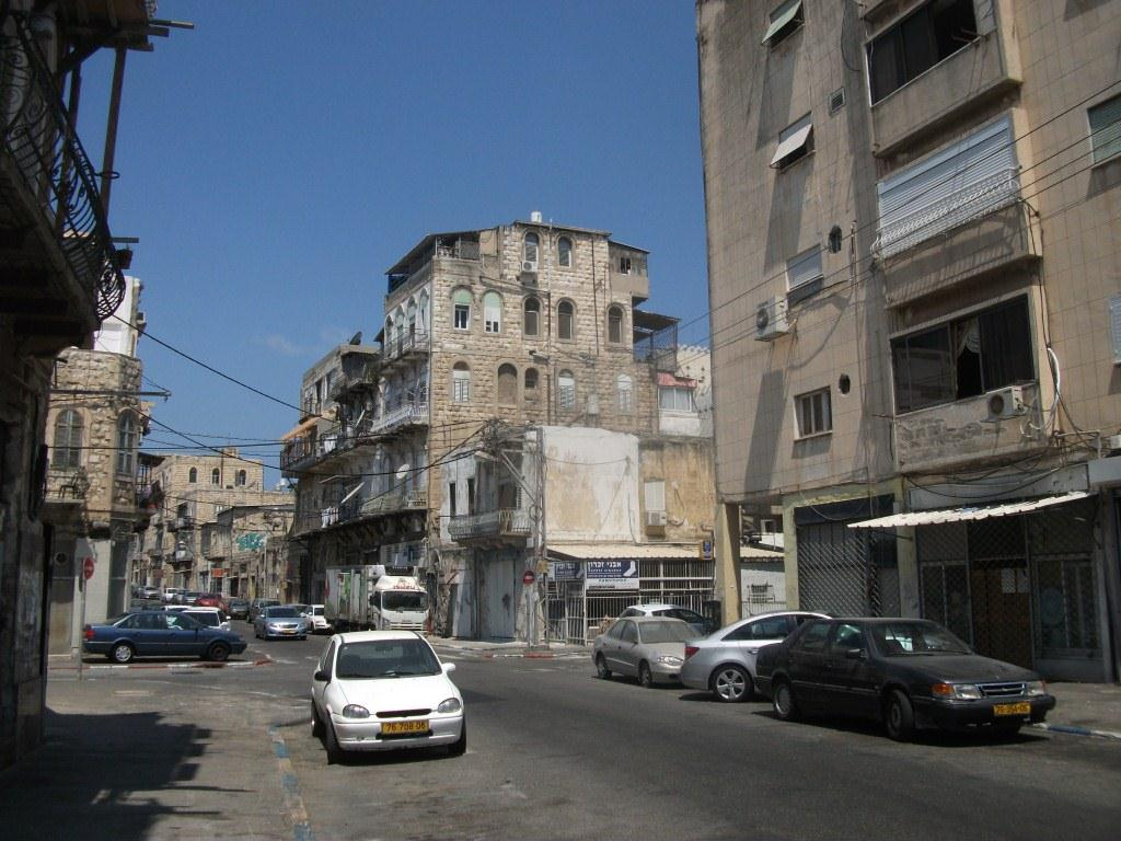 Haifa, typical street at Down Town